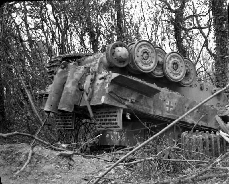 The Campaign in Normandy 1944 German PzKpfw VI Tiger tank overturned during the Allied heavy bombing at the beginning of Operation 'Goodwood', July 1944.